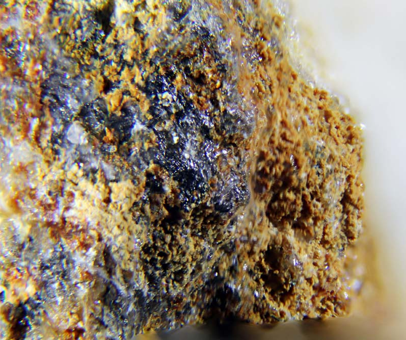 Silvery black crystal aggregates of the extremely rare Pb-Bi telluride mineral aleksite from one of the few known localities worldwide on a contrasting matrix. From: Keystone Canyon, Nye County, Nevada, United States of America.